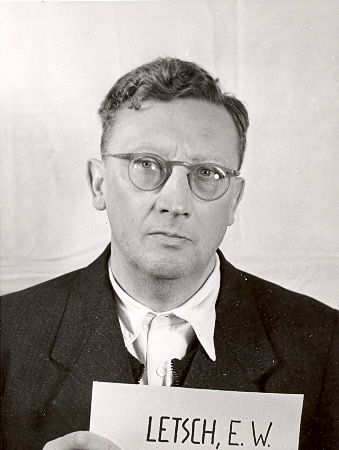 Ernst Walter Letsch, Ministry Councillor in the Reichs Ministry of Labor, as a witness during the Nuremberg Trials.